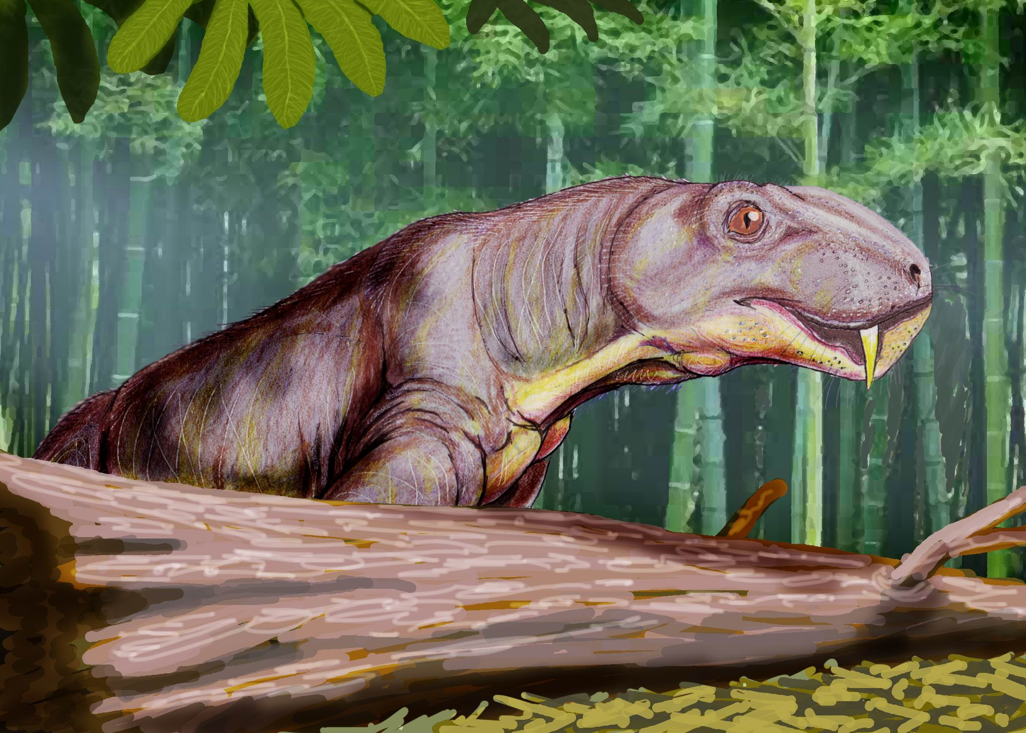 Smilesaurus ferox (formerly Aeluroganathus or Arctops)